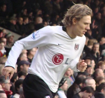 Jimmy Bullard of Fulham FC